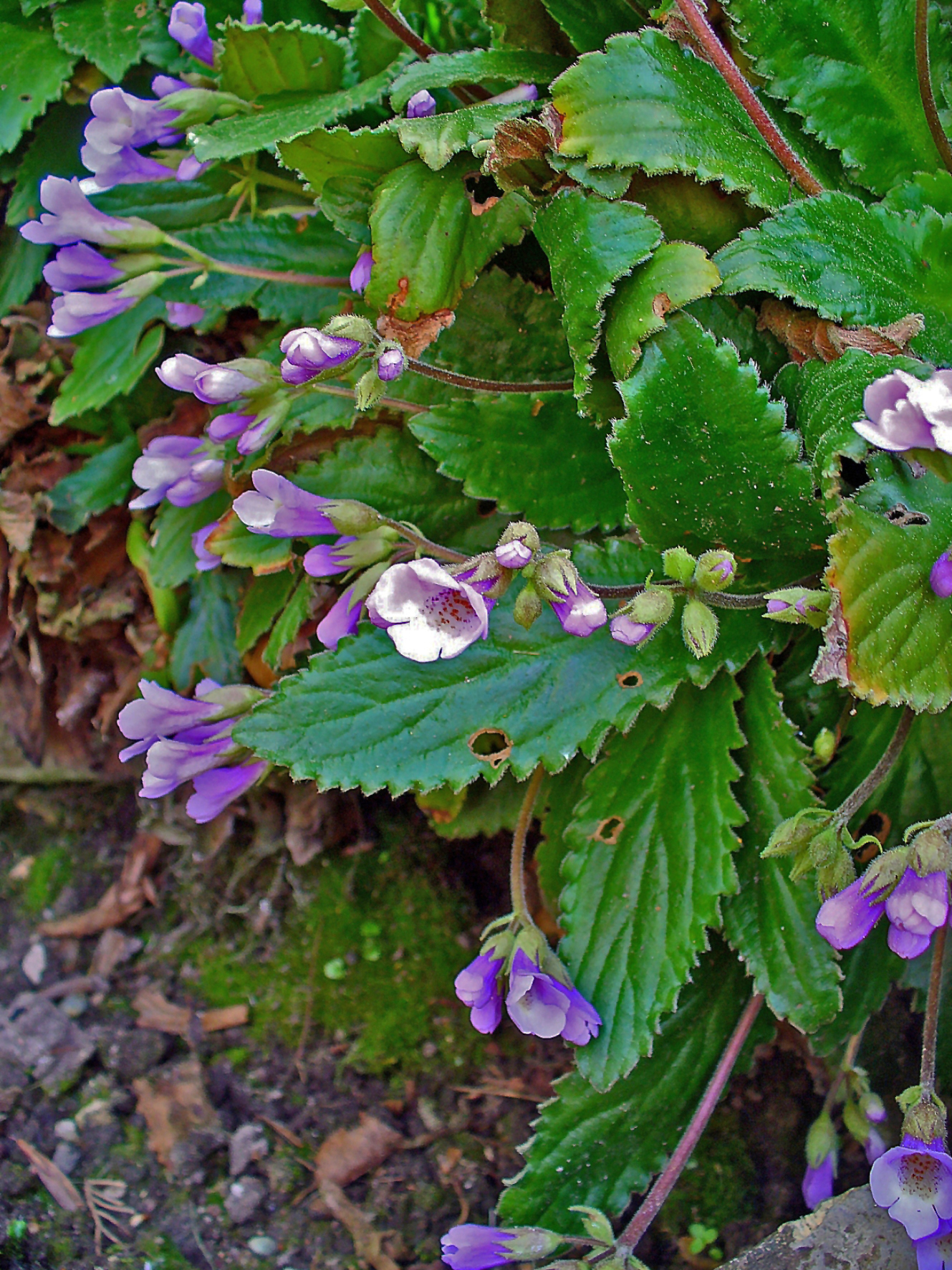 Haberlea rhodopensis (syn. H. ferdinandi-coburgi), Gesneriaceae, habitus; Botanical Garden KIT, Karlsruhe, Germany.